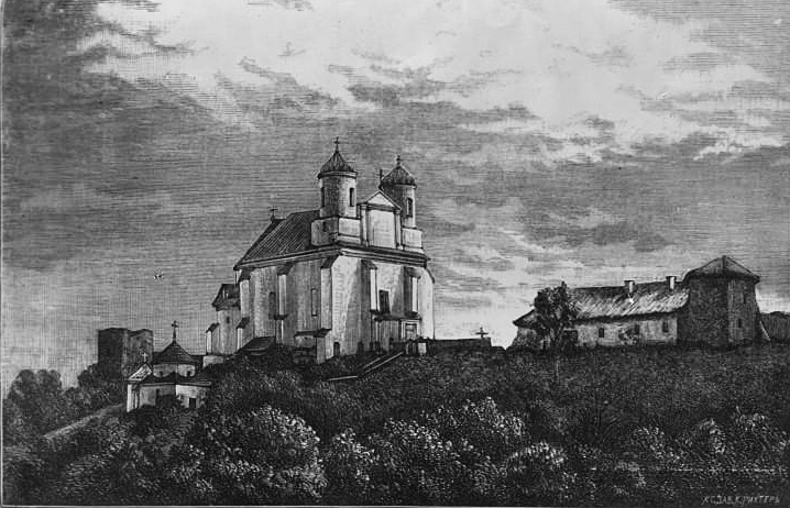 Former monastery in Zimne, before the renovation and reopening of Orthodox community.